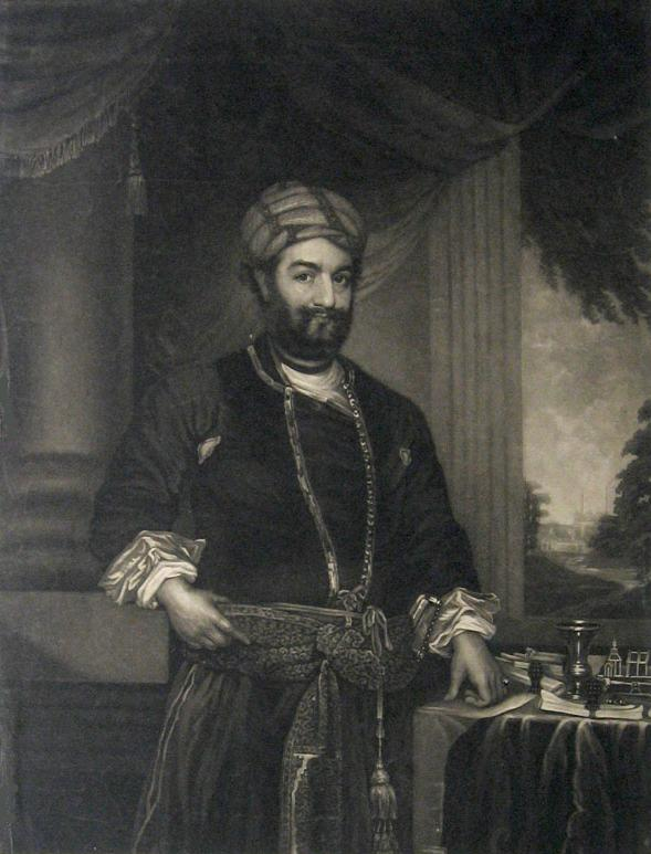 Mezzotint by William Say (1768-1834) entitled His Highness Saadut Aly Khan, Nawob Vizier of Oude. From an original Picture now in the Posession of His Royal Highness the Prince of Wales Printed at Lucknow by Mr Place for P. Treves Junr Esqr.